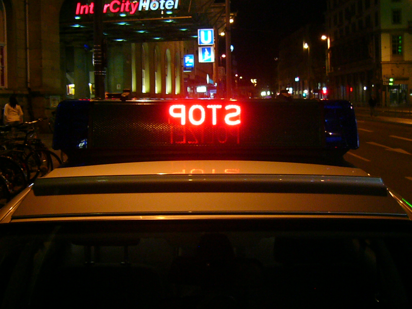 Police/stop light in mirror writing ("POTS")